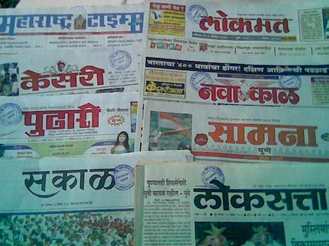 Photograph of popular Marathi newspapers.